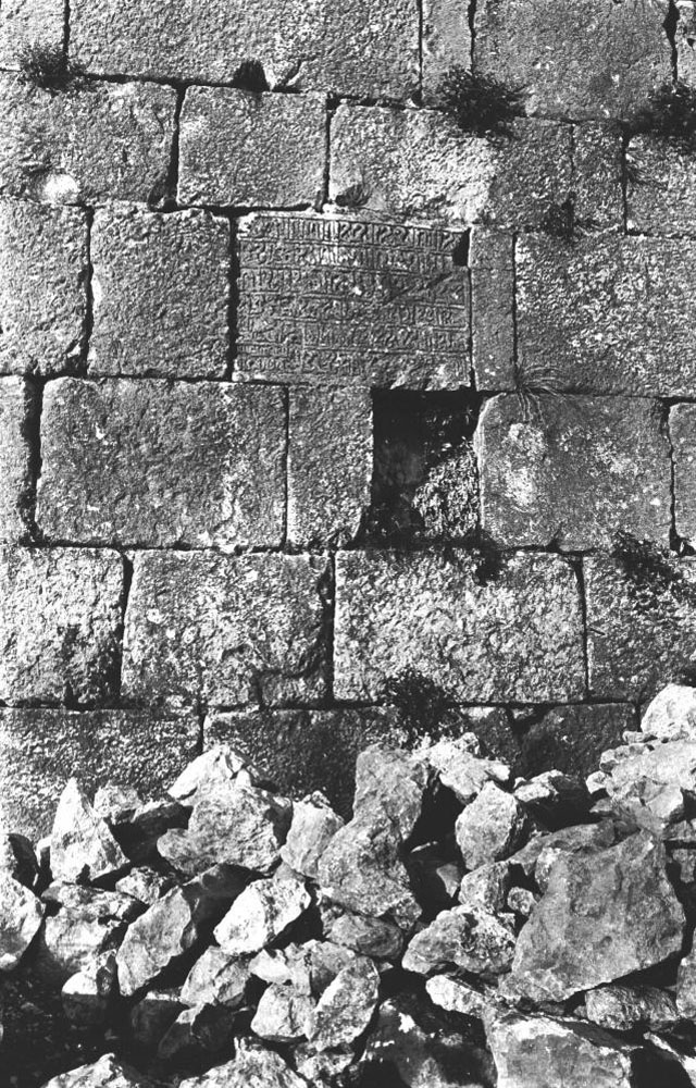 N wall. 4. Merwanid Ahmad c. 416 H. L. H. No 3 [City Wall - detail of N wall showing carved Arabic inscription - Merwanid Ahmad]